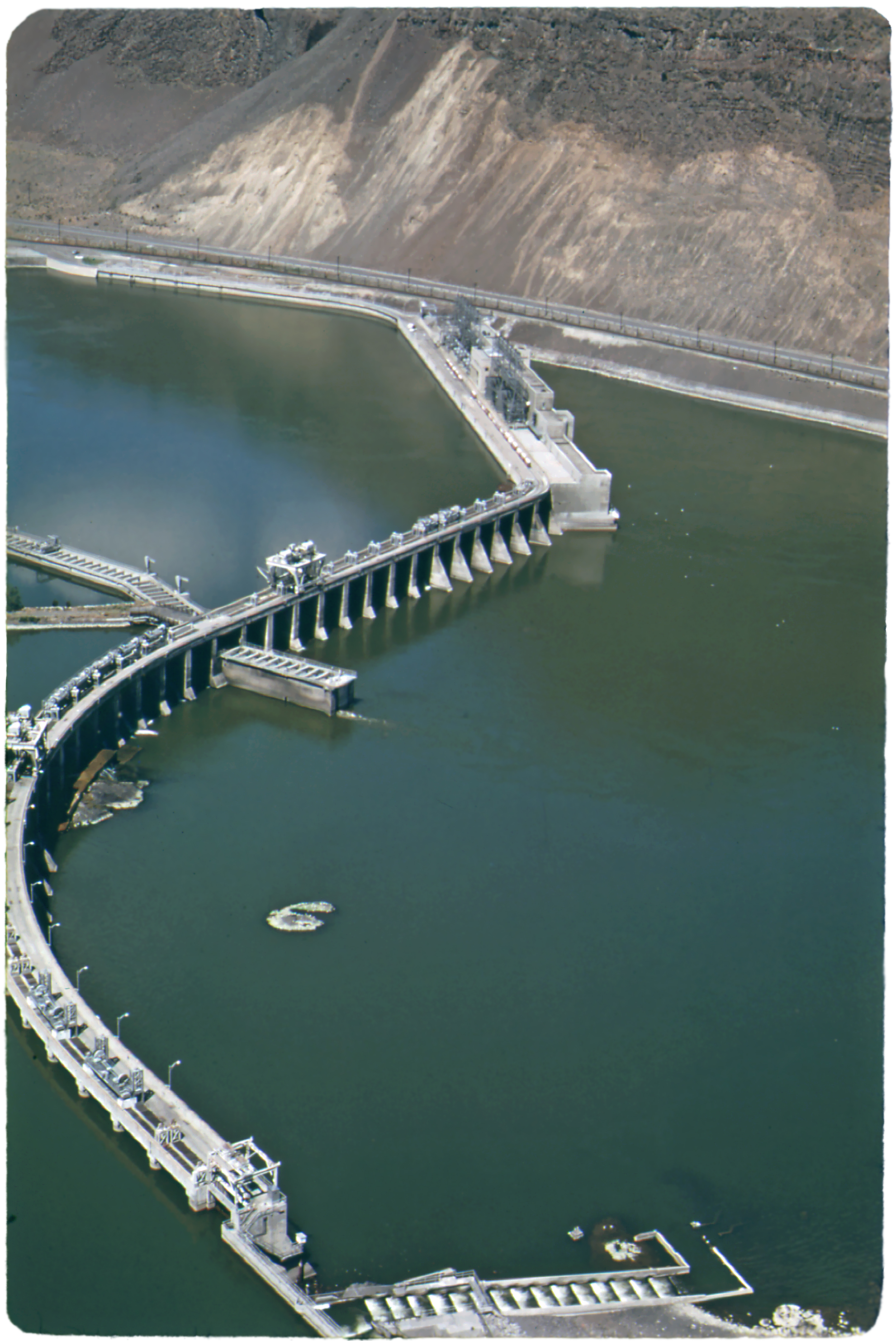 ROCK ISLAND DAM IS THE OLDEST DAM ON THE COLUMBIA RIVER